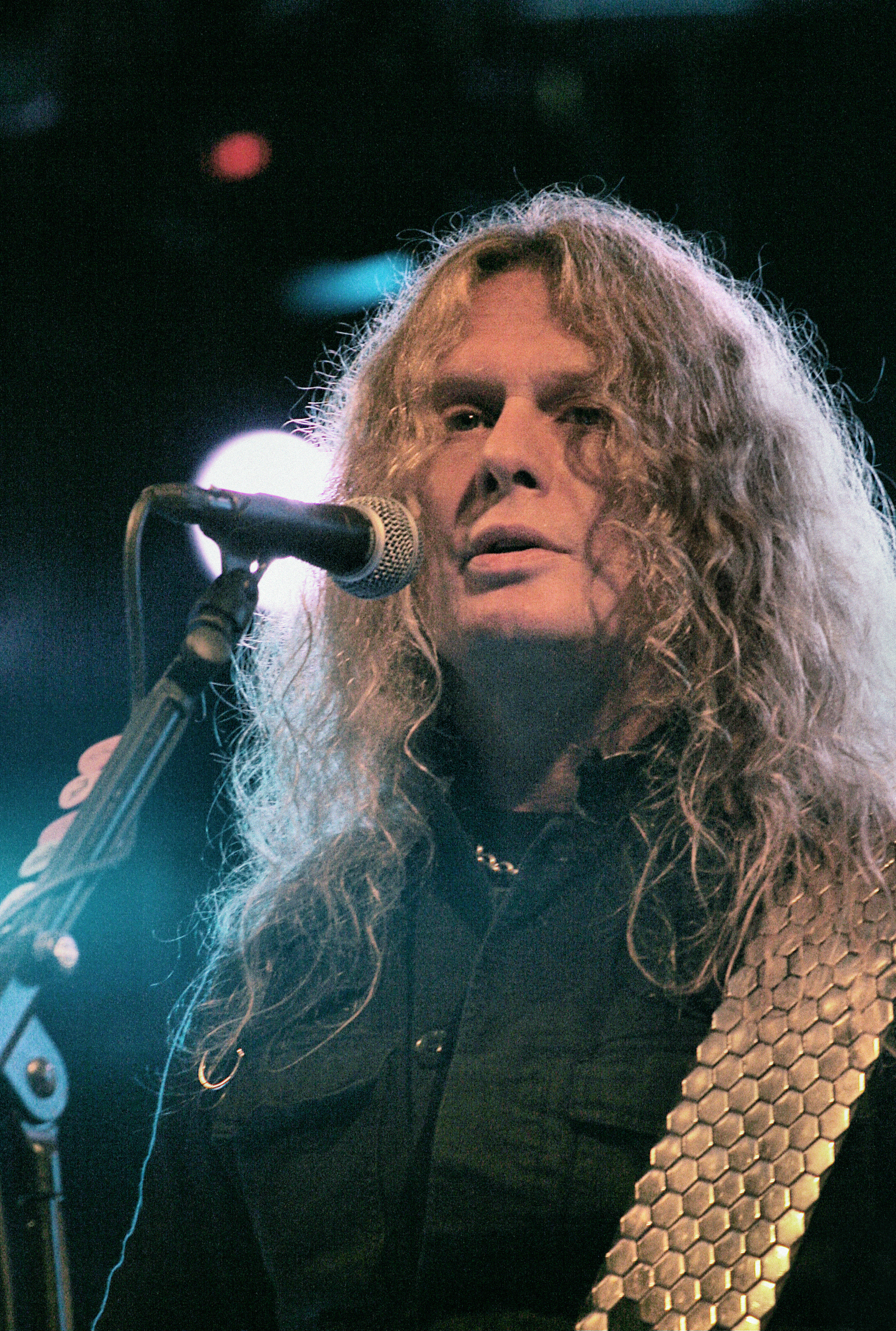 John Sykes